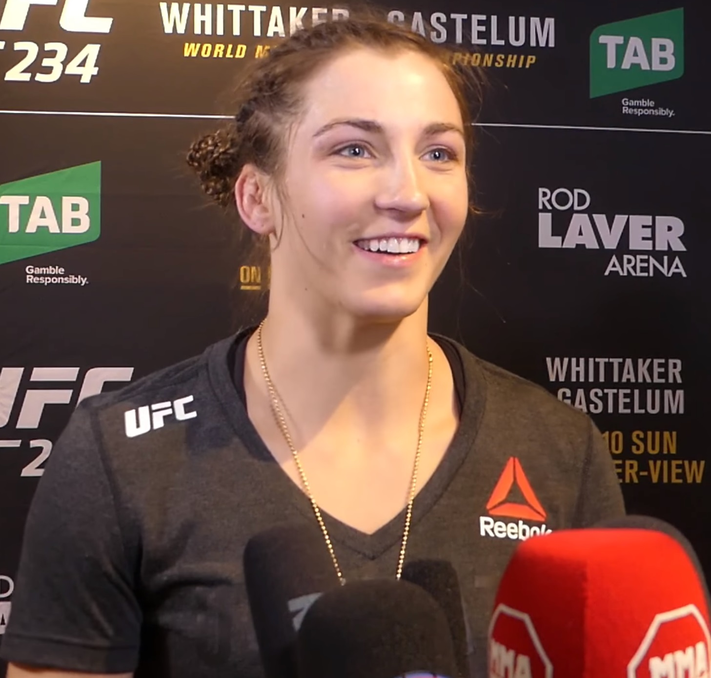 UFC 234 UFC #MMA #MONTANADELAROSA UFC #ConorMcGregor #UFC231 Visit Europe's biggest MMA website Follow us on our Social Media channels: Facebook: Instagram: Twitter